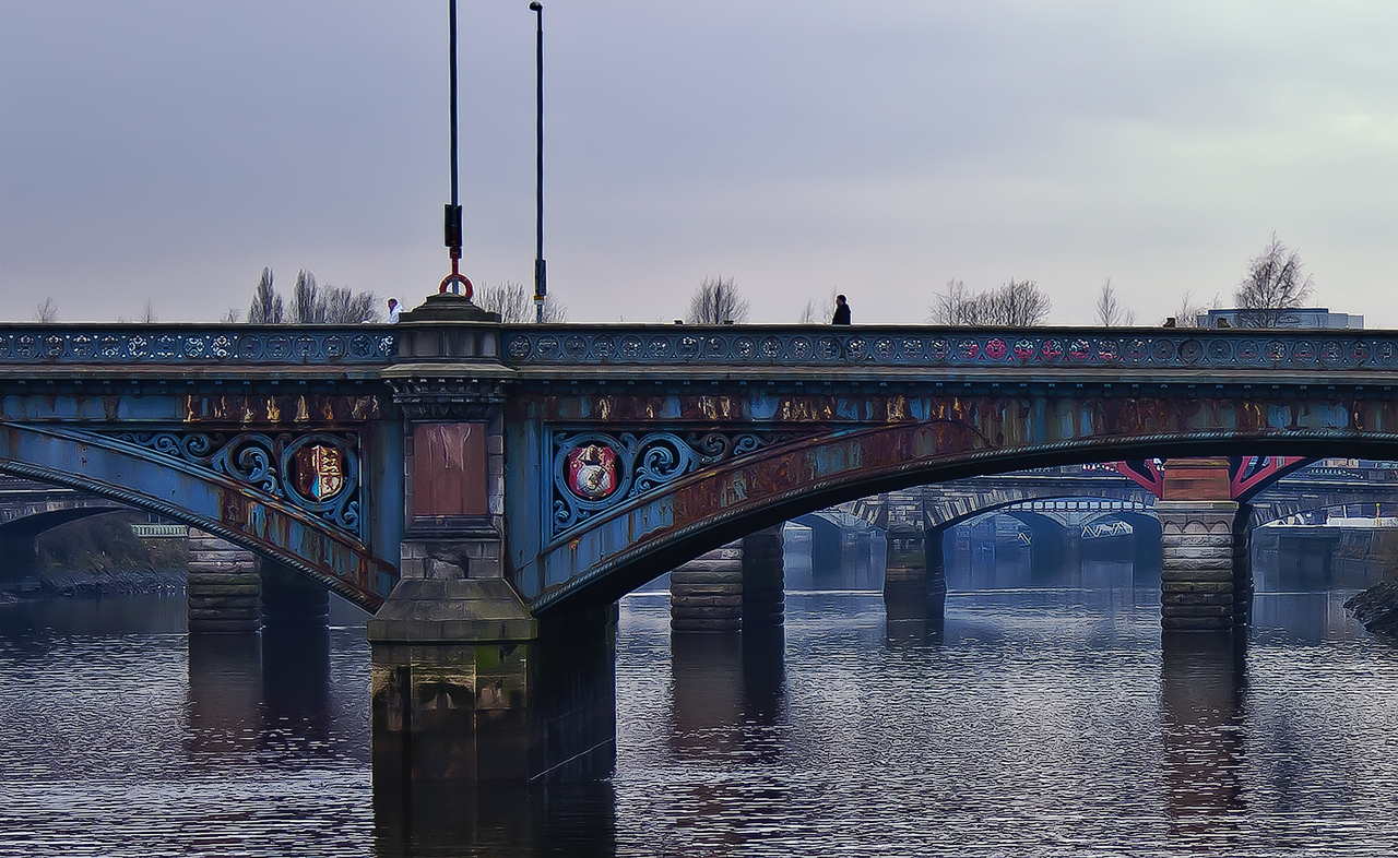 Glasgow